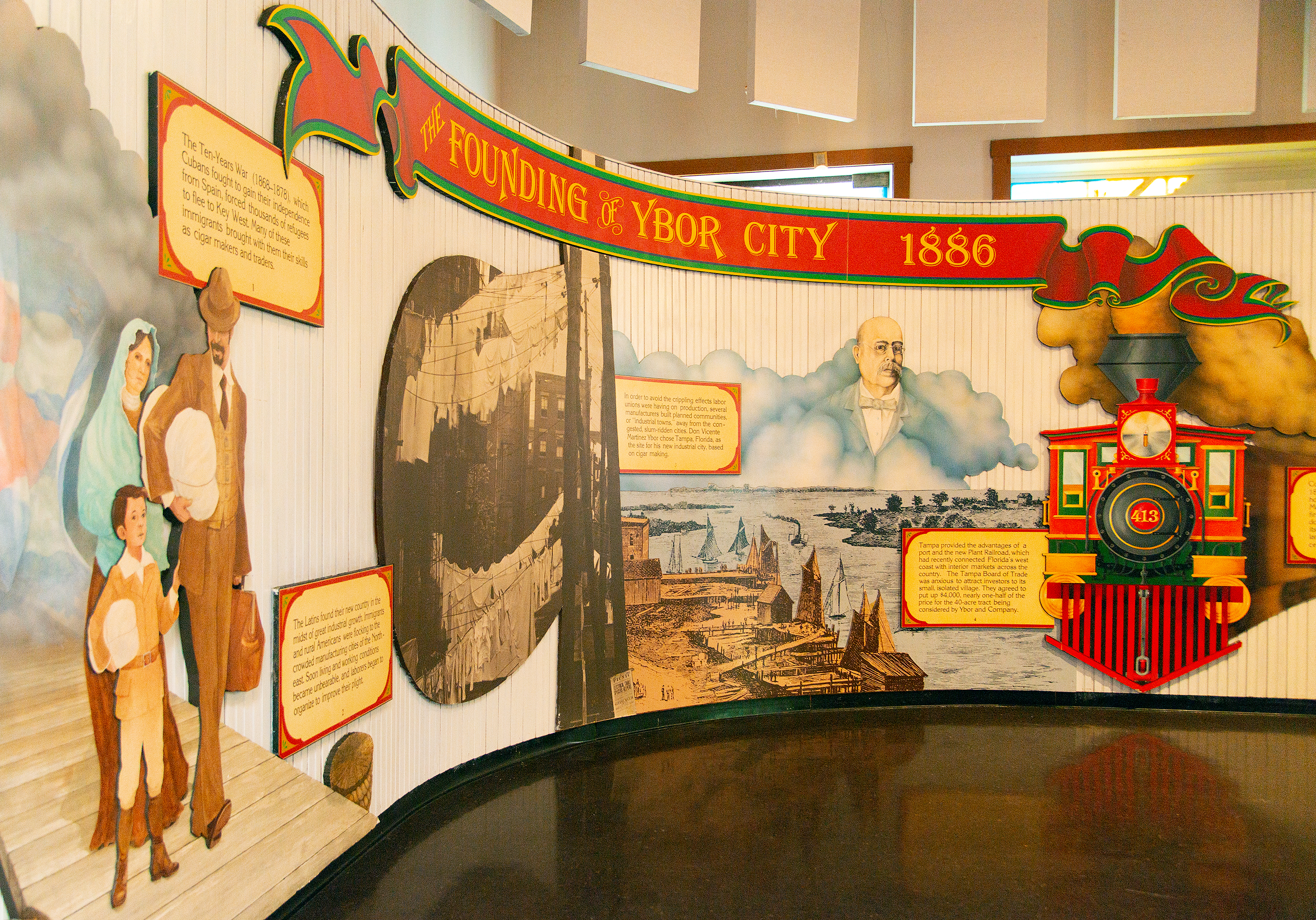 Historic display, Ybor City Museum State Park, Tampa, Florida